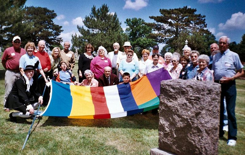 FamSAC's Blair Nebraska reunion 2007 (l-r: Richard M. Wardell, Dorothy Johnson Truhlsen, L. Emil Eikner, Stanley M. Truhlsen, Sr., (anonymous, anonymous), William C. Truhlsen, Jolene Pospichal Stock, Jodie Truhlsen Johns, Janice Pospichal Everman, Jacob Truedson Demitz, Spike C. Jorgensen, Ezra Richardson, Richard Pehrson, Karen K. Smith, Carolyn Smith Reis, Linda Myers Goodwin, Beulah Houser Smith, Mildred Smith Sorber, Lela Myers Platt, Rodney G. Smith, Mary Hultquist Garrison, Norma Andersen Truhlsen, Lyle Truhlsen and Kenneth Truhlsen), as released by image creator FamSACPlace: Municipal Cemetery, Blair, NebraskaBanner: FamSAC